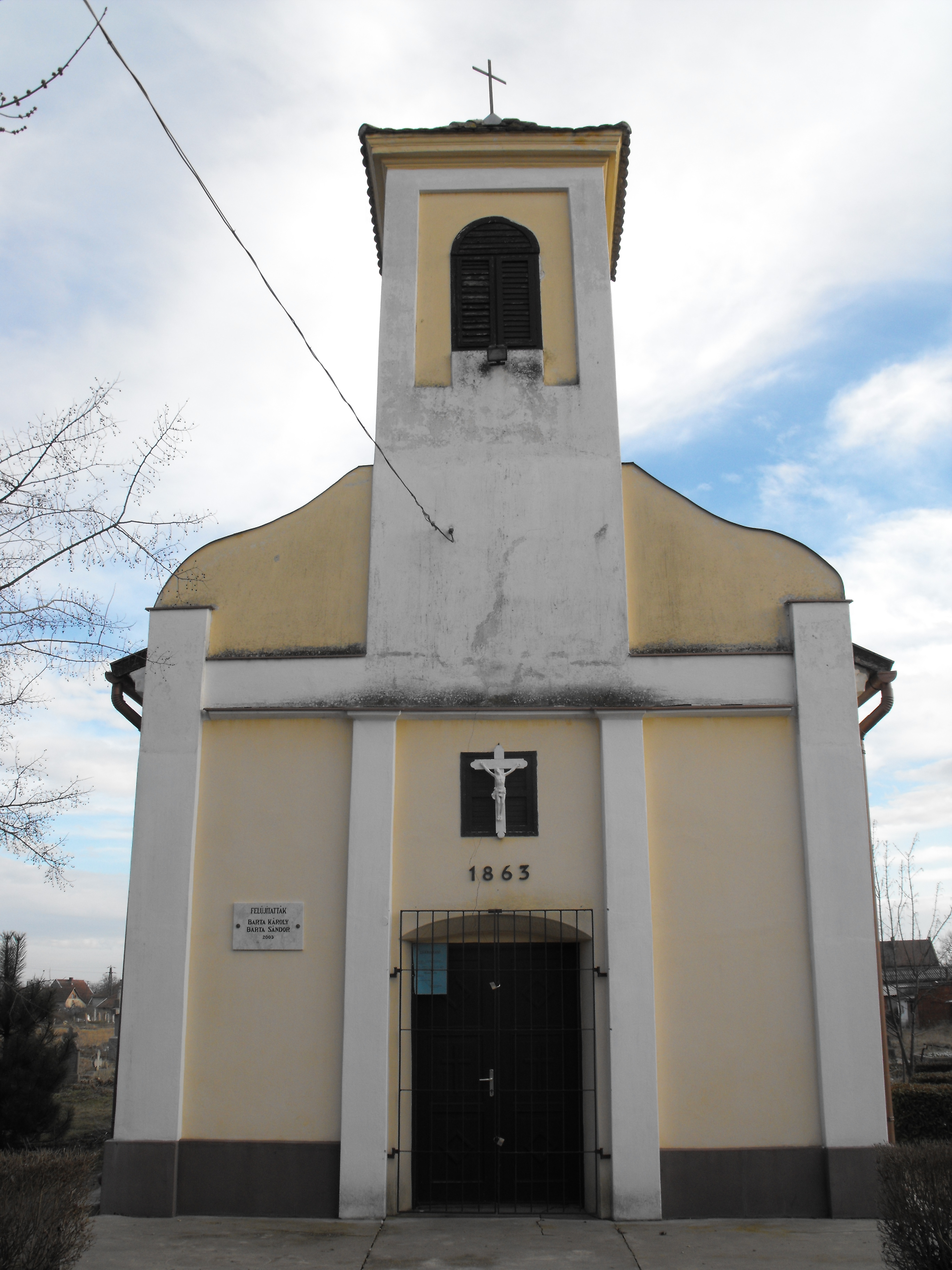 Chapel in the cemetery in Csanádpalota, Hungary.